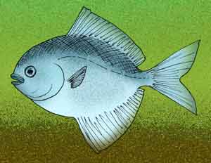 Reconstruction of the prehistoric moonyfish, Pasaichthys pleuronectiformis, from Monte Bolca